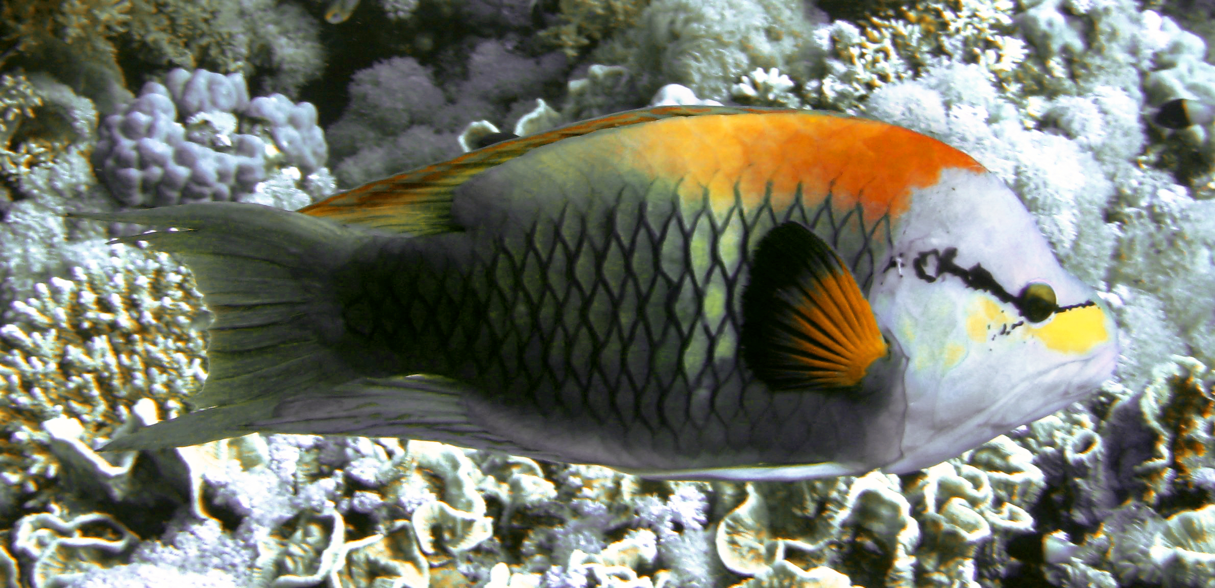 Epibulus insidiator. Photo taken in the red sea near Sharm el-Sheikh